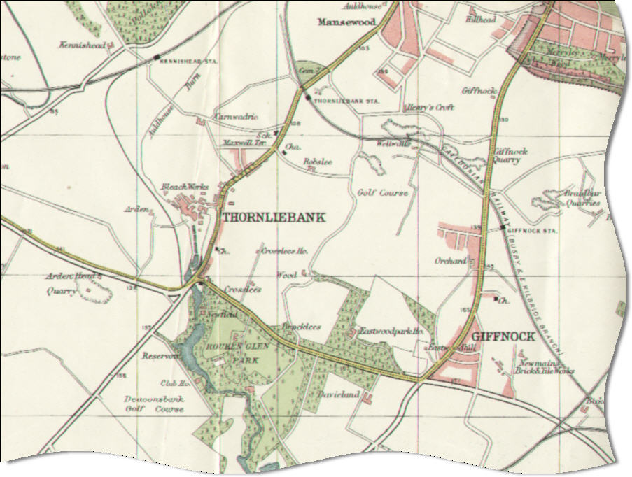 Map of Thornliebank & Giffnock in 1923